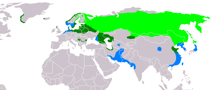 Distribution of Haliaeetus albicilla nesting area resident all year wintering area